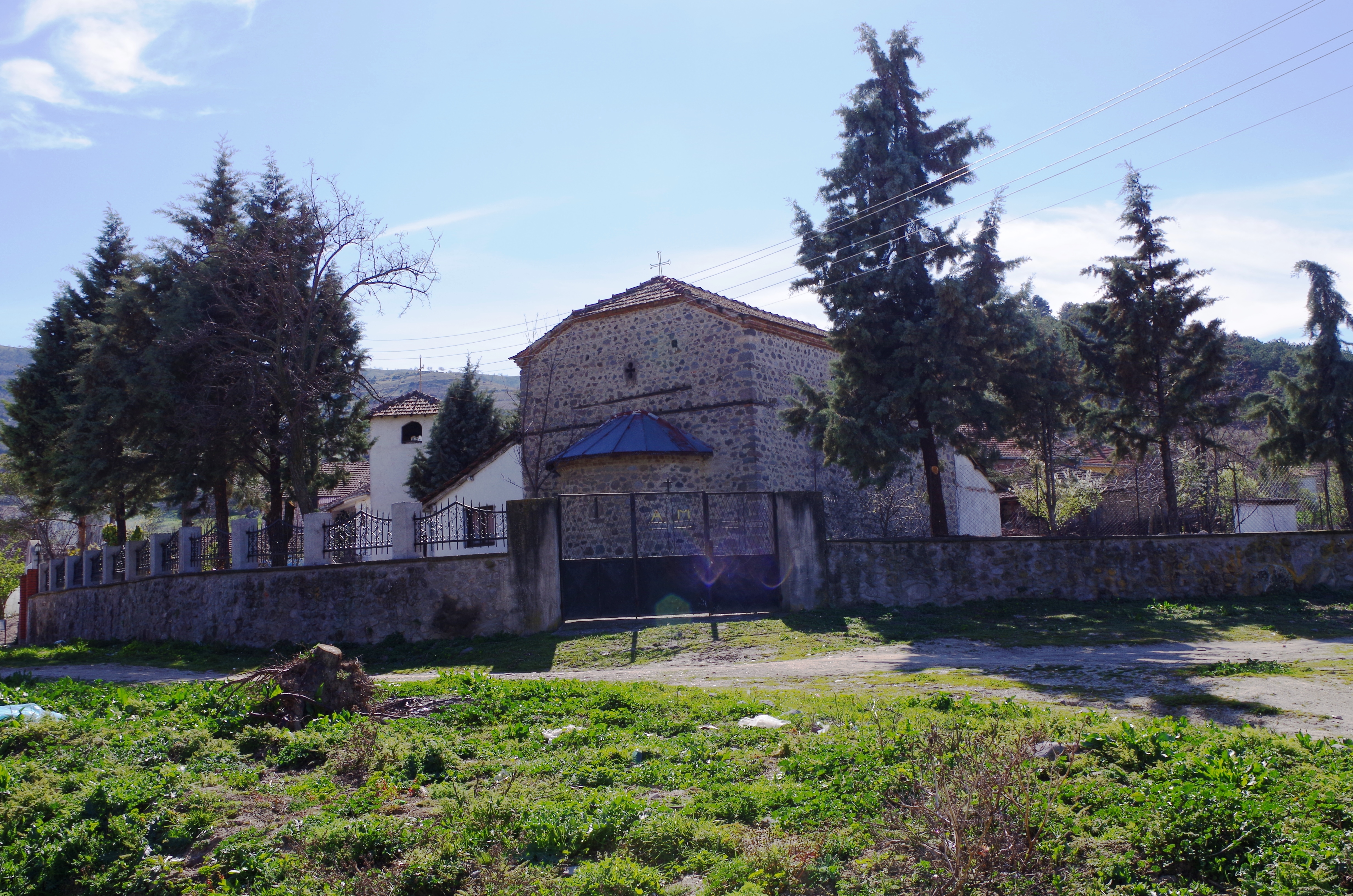 Church in the village Dolni Disan